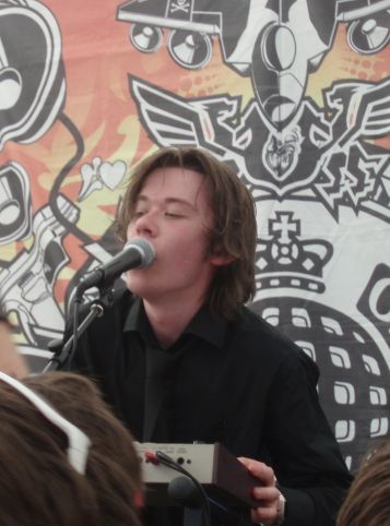 Callan Young at MS Fest 2007